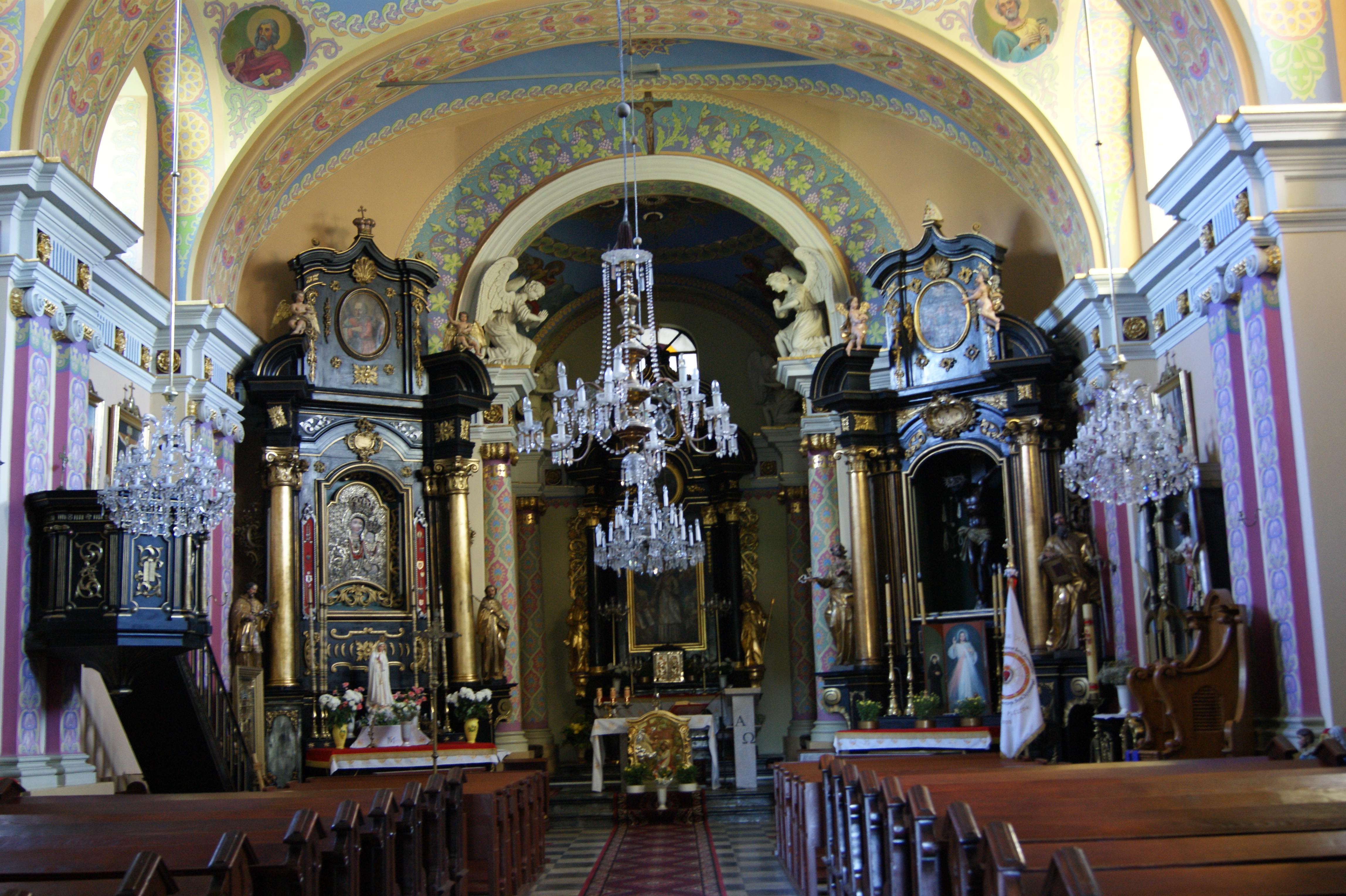 StVincent Pallotti Church (inside), 12 Nadbrzezie street, Pleszow,Nowa Huta, Krakow, Poland